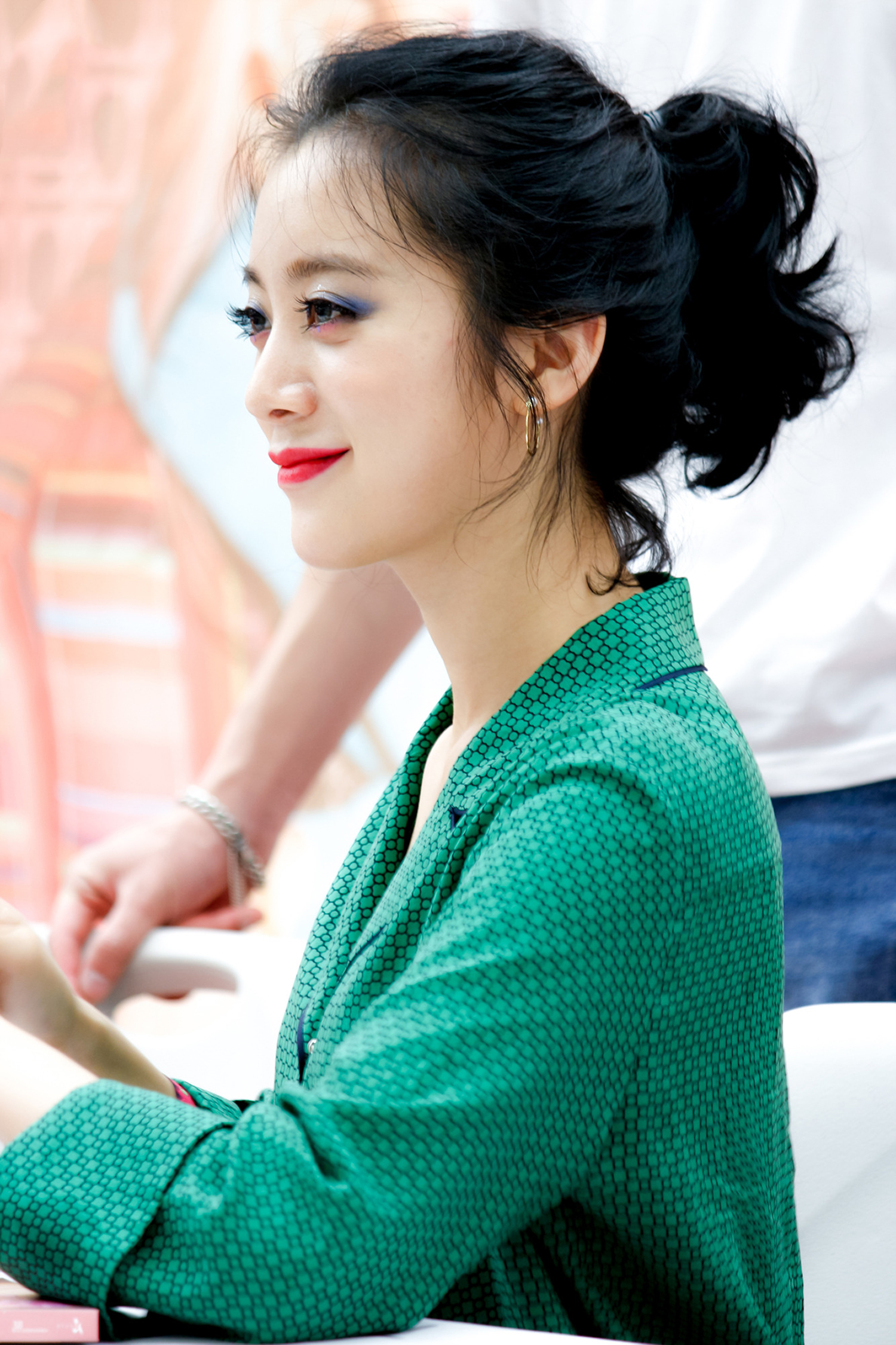 Woo Hye-rim at a fanmeet on July 15, 2016.